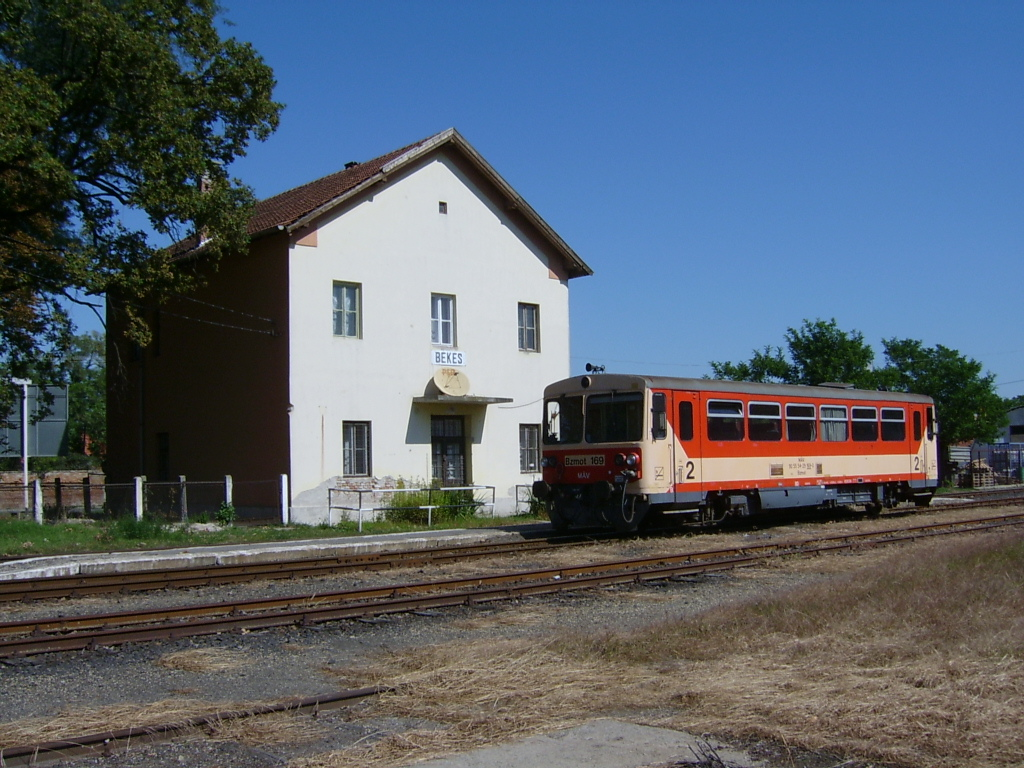 Train in Békés railway station, Hungary